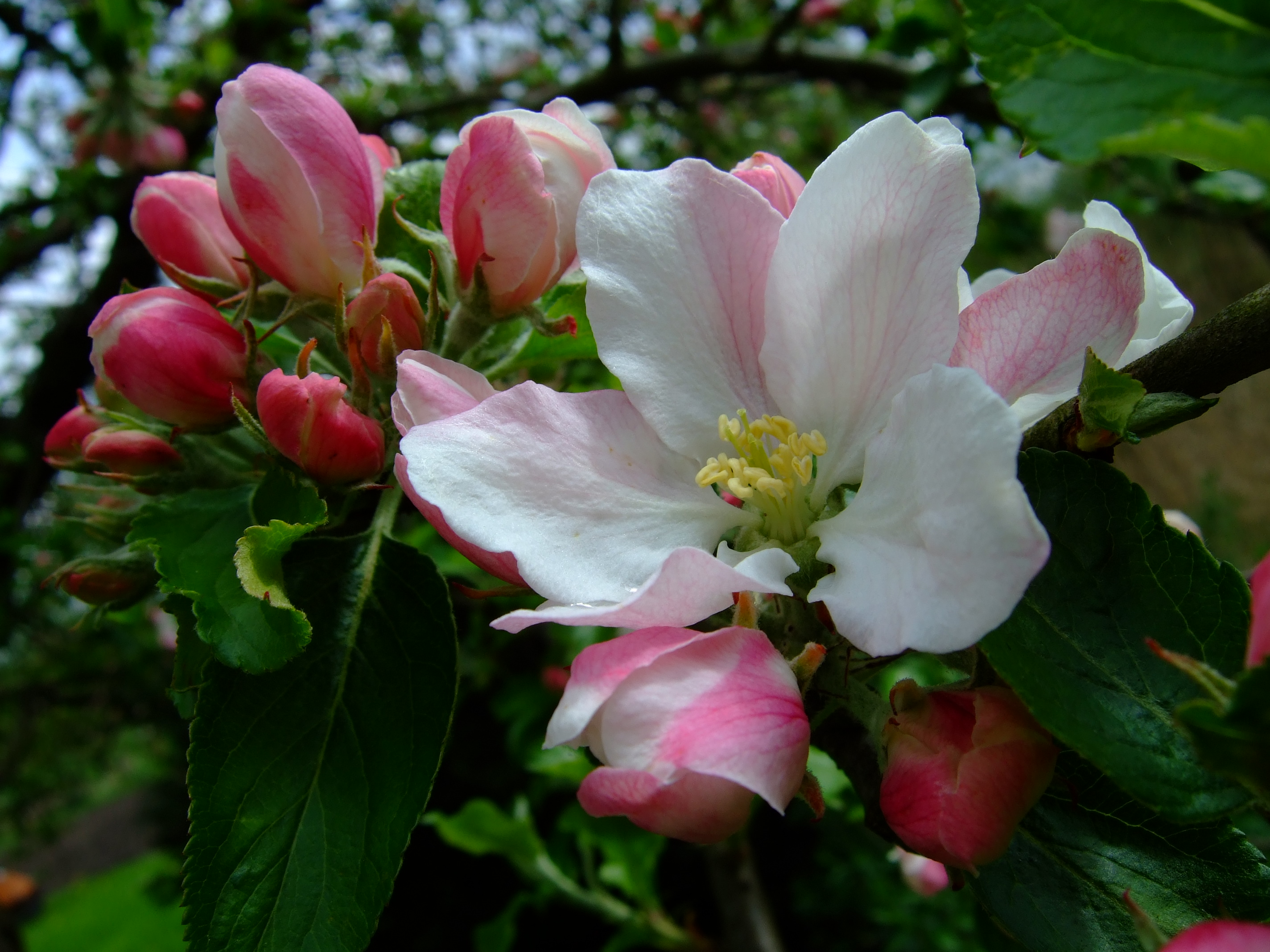 Apple flowers (Holsteiner Cox) in Kirchwerder, Hamburg.